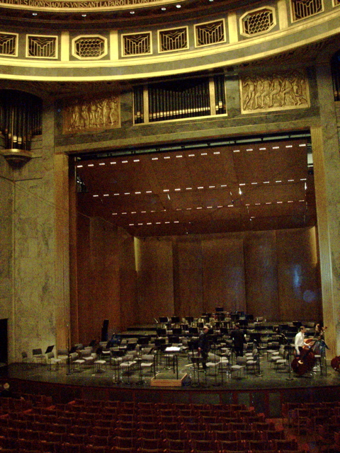 Stage of the Théâtre des Champs-Élysées (Paris), June 29th, 2006